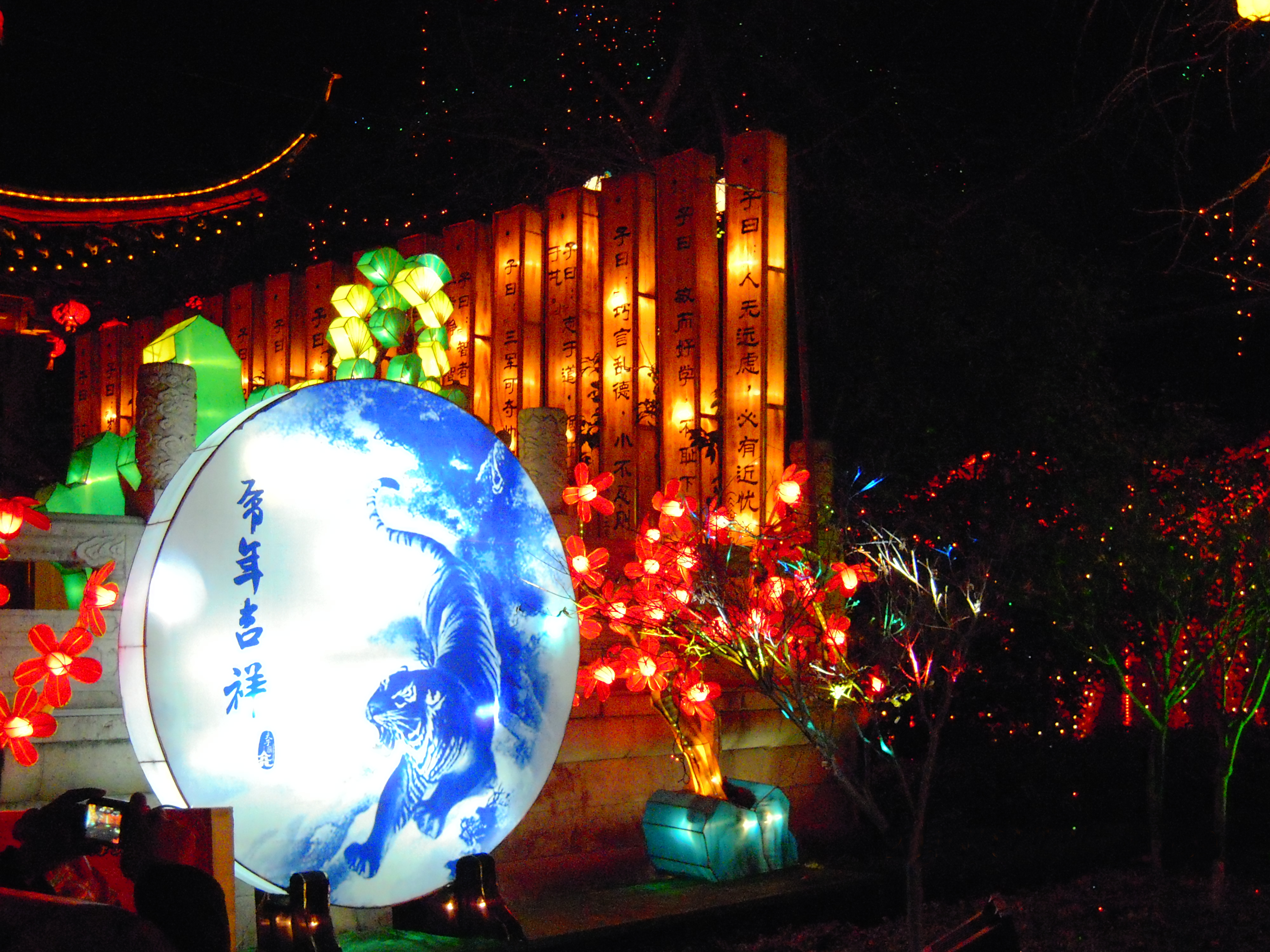 Qinhuai Lantern Fair in Nanjing Fuzimiao on Lantern Festival 中文（中国大陆）: 南京夫子庙在元宵节期间举办的金陵灯会